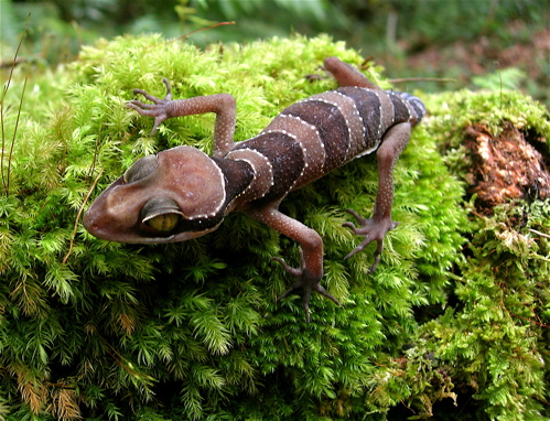 Malayan forest gecko (Cyrtodactulus pulchellus) found in the cloud forest of Bukit Larut (Maxwell Hill) Malaysia in the Bintang Range.